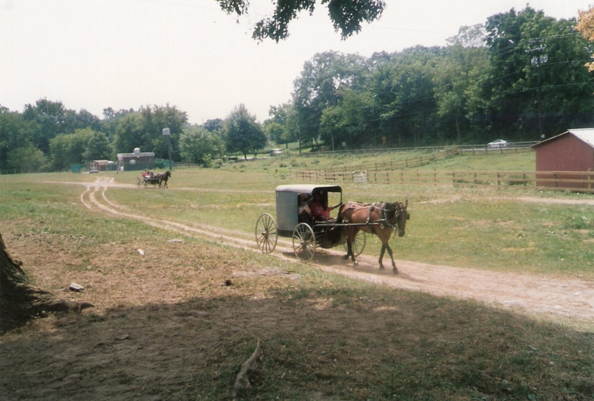 amish buggy, pennsylvania